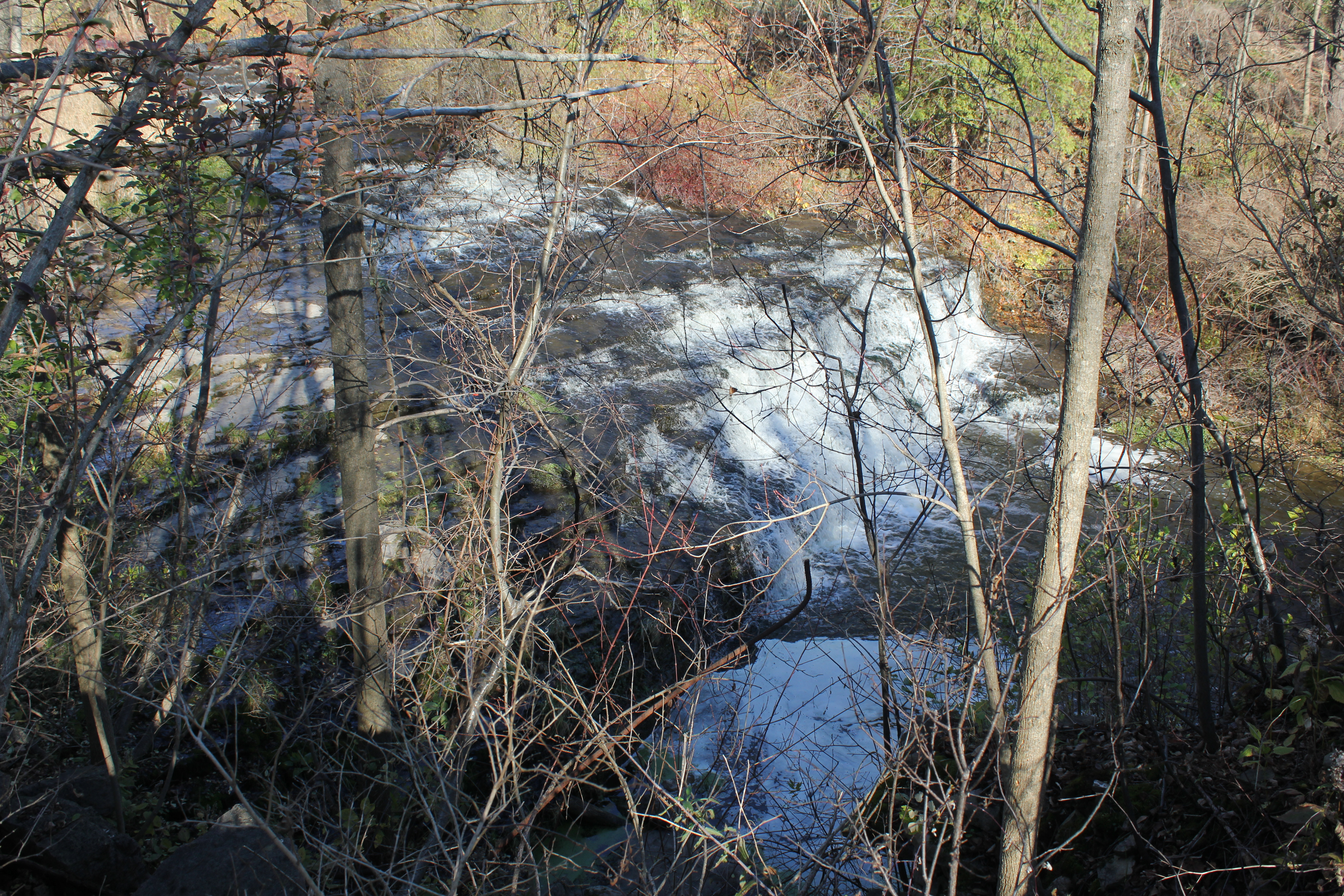 Ontario, Canada, Spencer Gorge Cons. Area. Darnley Cascade